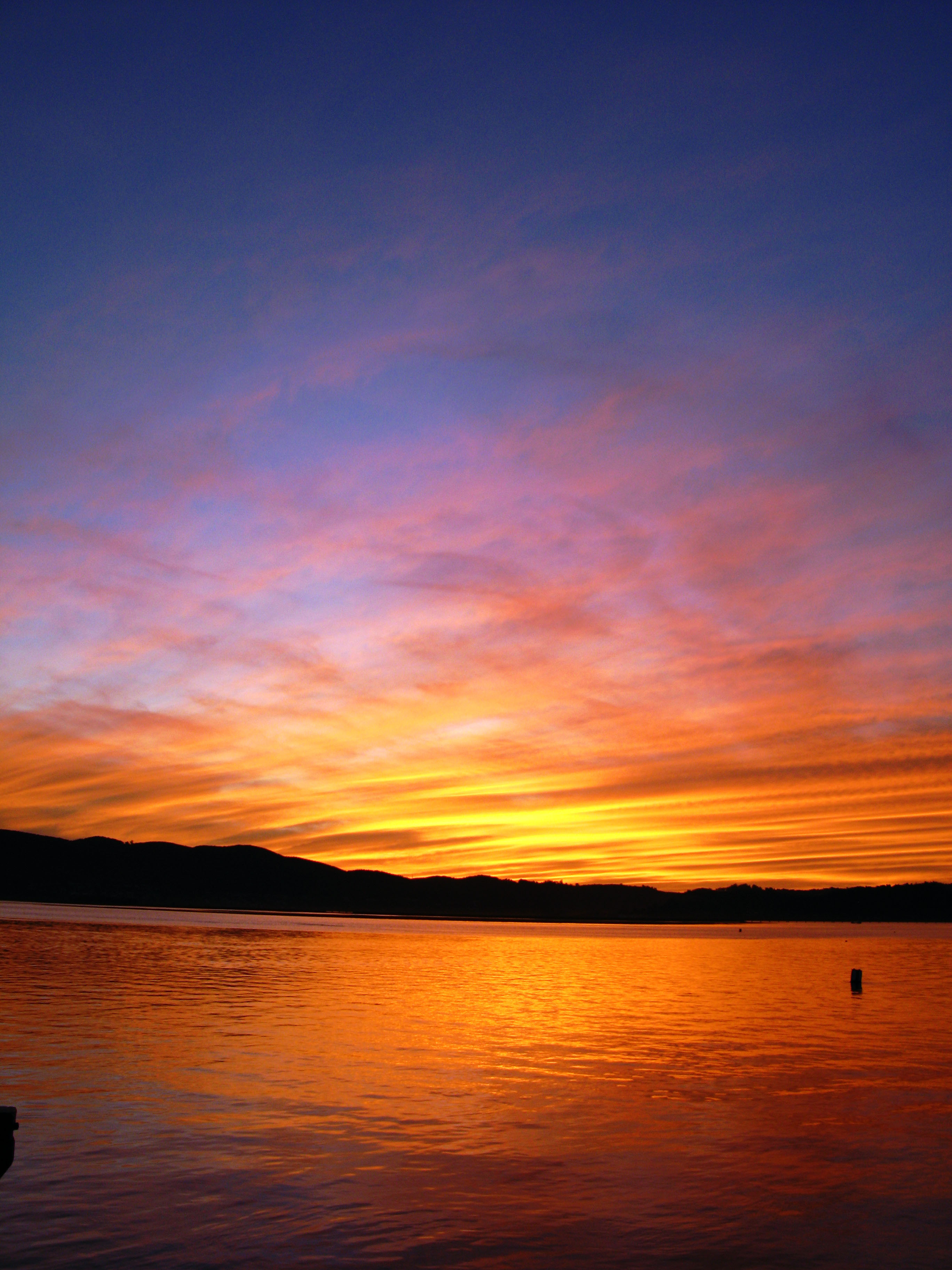 colourful sunset. knysna, south africa. slightly photoshopped to enhance the colours.